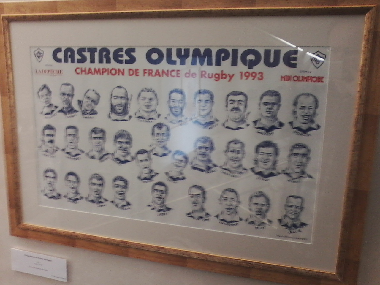 Poster en hommage aux champions de France 1992-1993